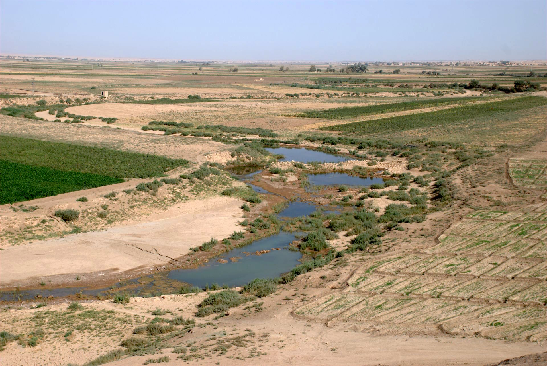 Khabur river, Syria, near Tell Sheikh Hamad